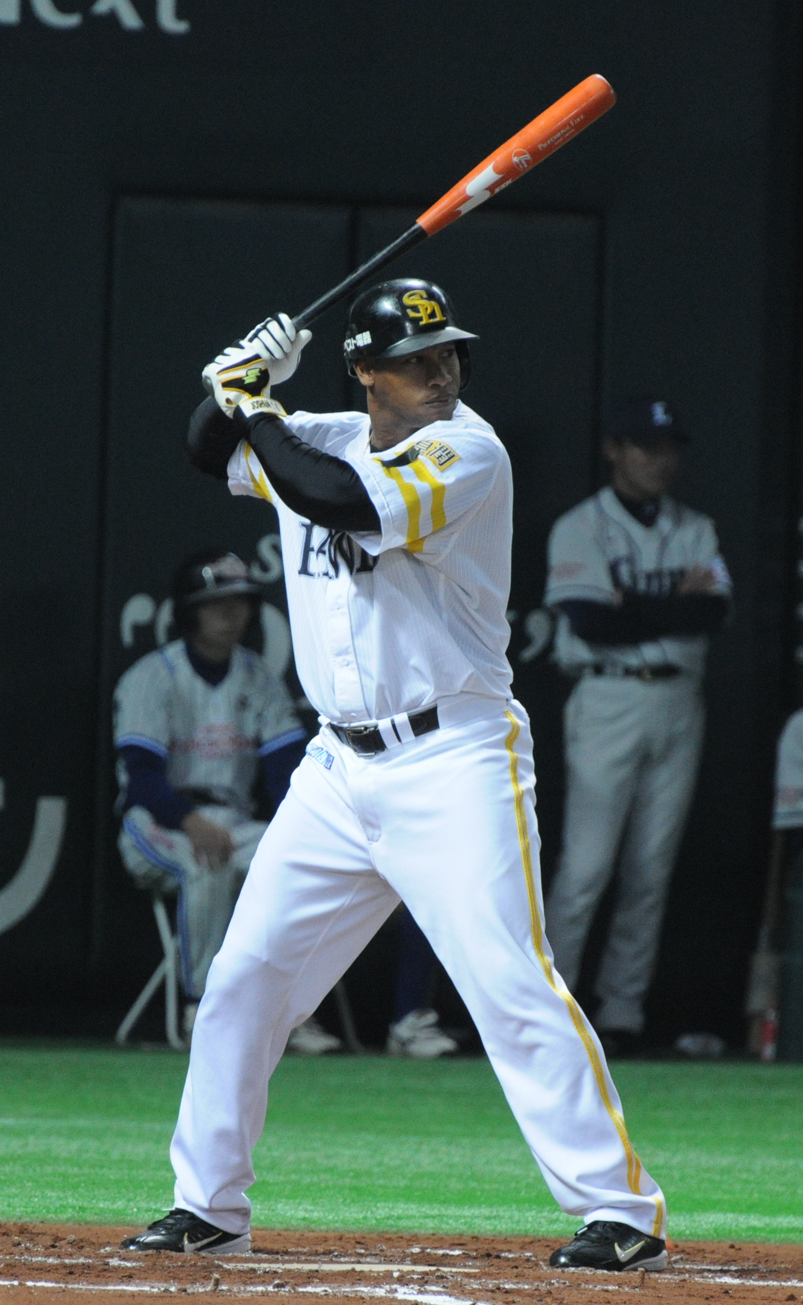 José Ortiz, outfielder of the Fukuoka SoftBank Hawks, at Fukuoka Dome.